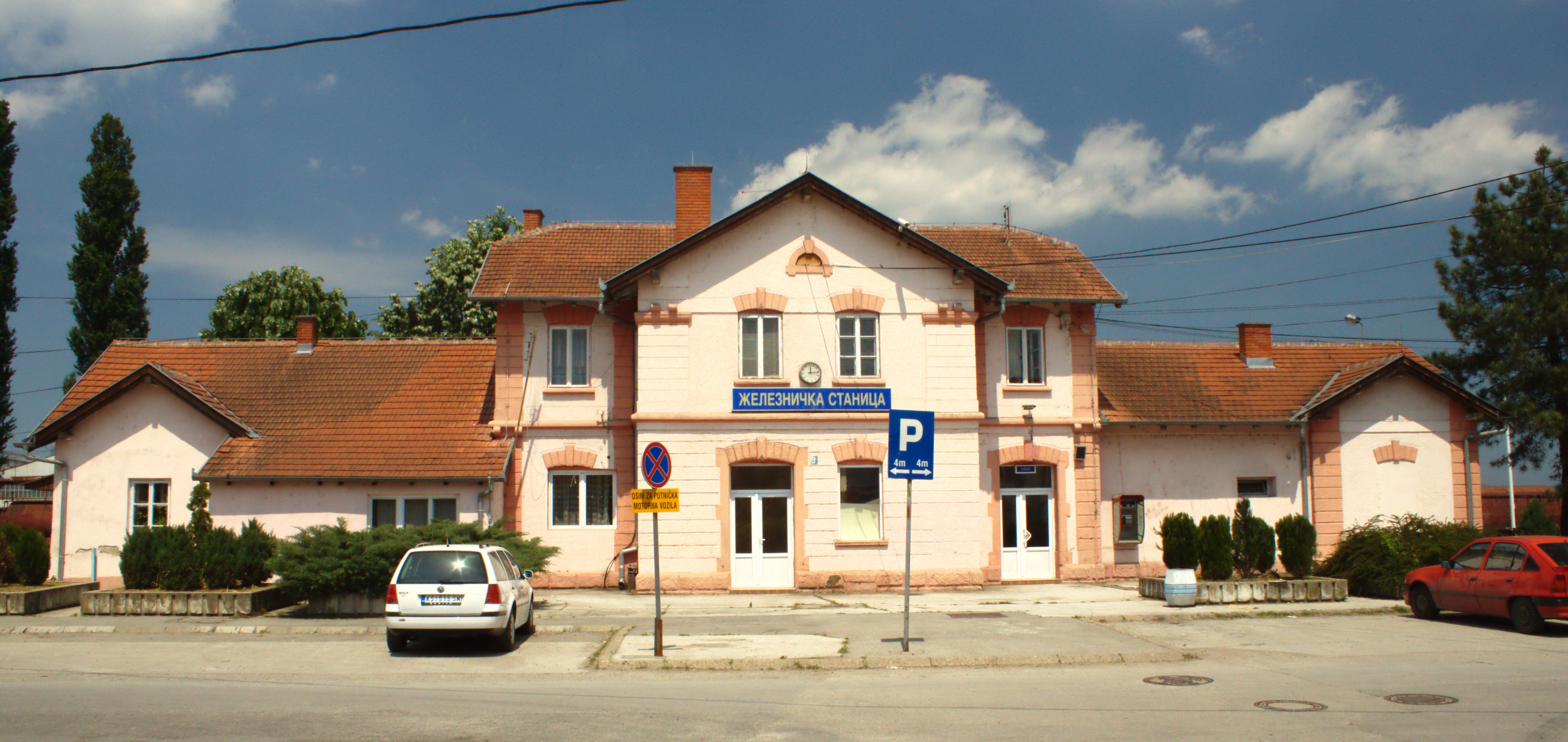 Train station building in Kruševac, Serbia